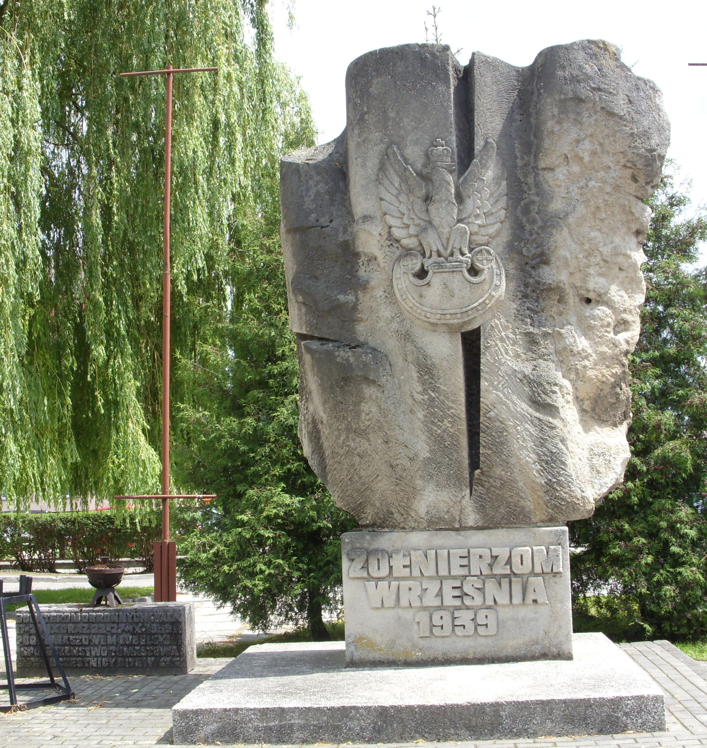 Monument to the Soldiers of September 1939 in Tomaszów Lubelski, in the Lublin Province. 1939 Polish Defense War against Nazi Germany.